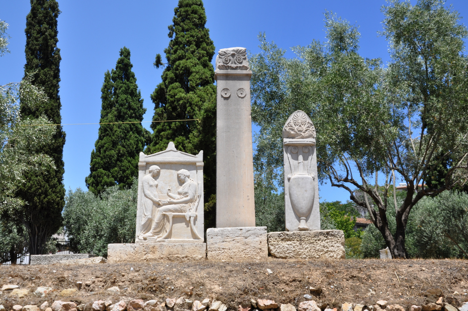 Modern replica of the burial monuments for Hegeso daughter of Proxenios (left) and for Koroibos (centre). The original artworks are in the Archaeological Museum of Kerameikos (Athens), these copies stand in the Street of Tombs in the Ancient Greek Kerameikos Cemetery (Athens).